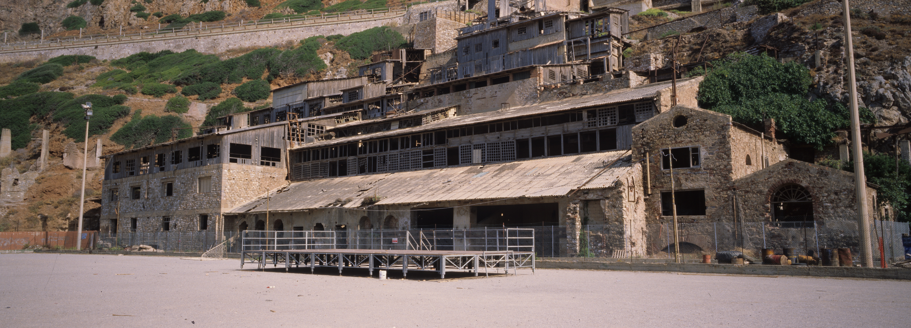 laveria Malfidano a Buggerru, west Sardinia, Italy